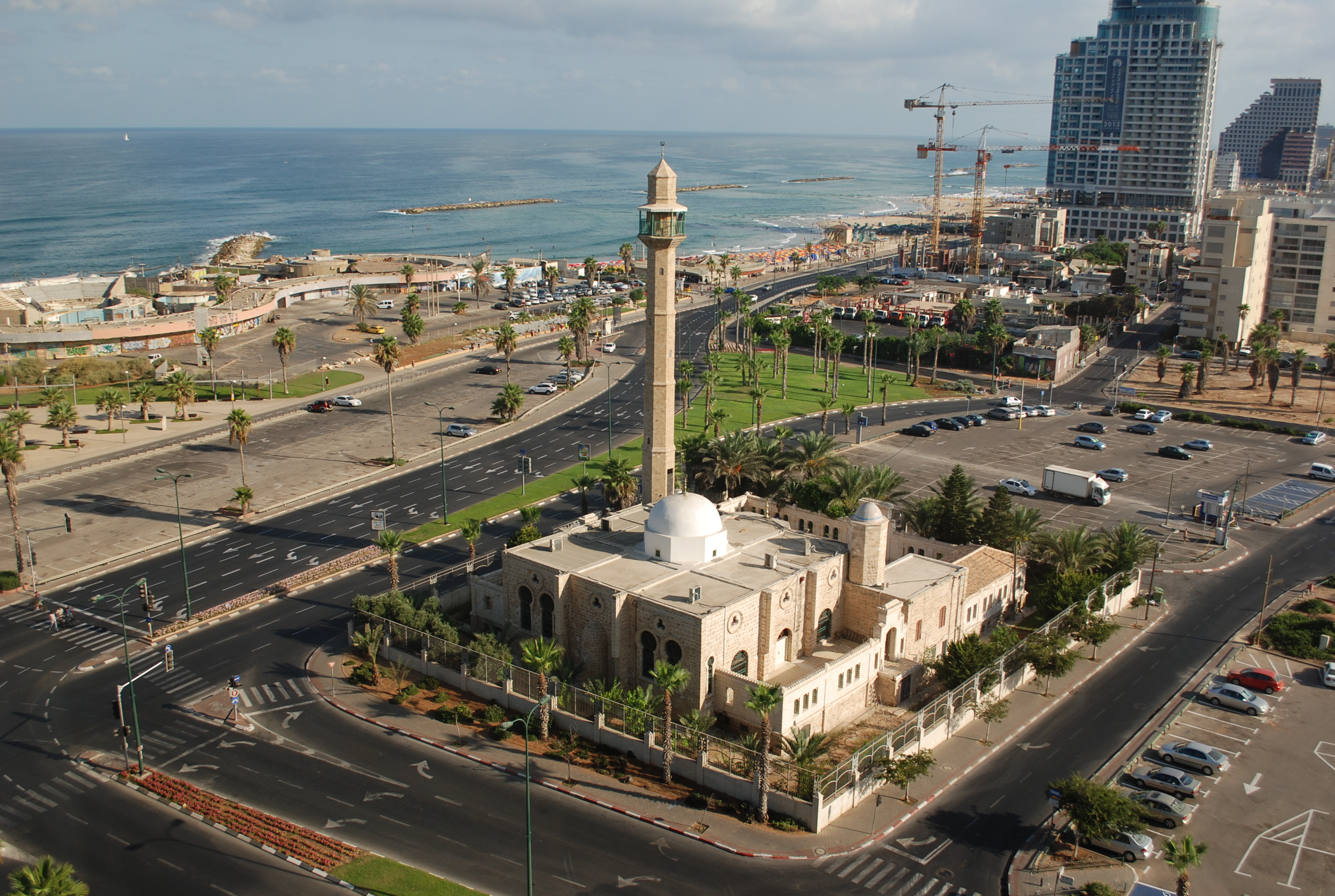 Hassan Bek Mosque